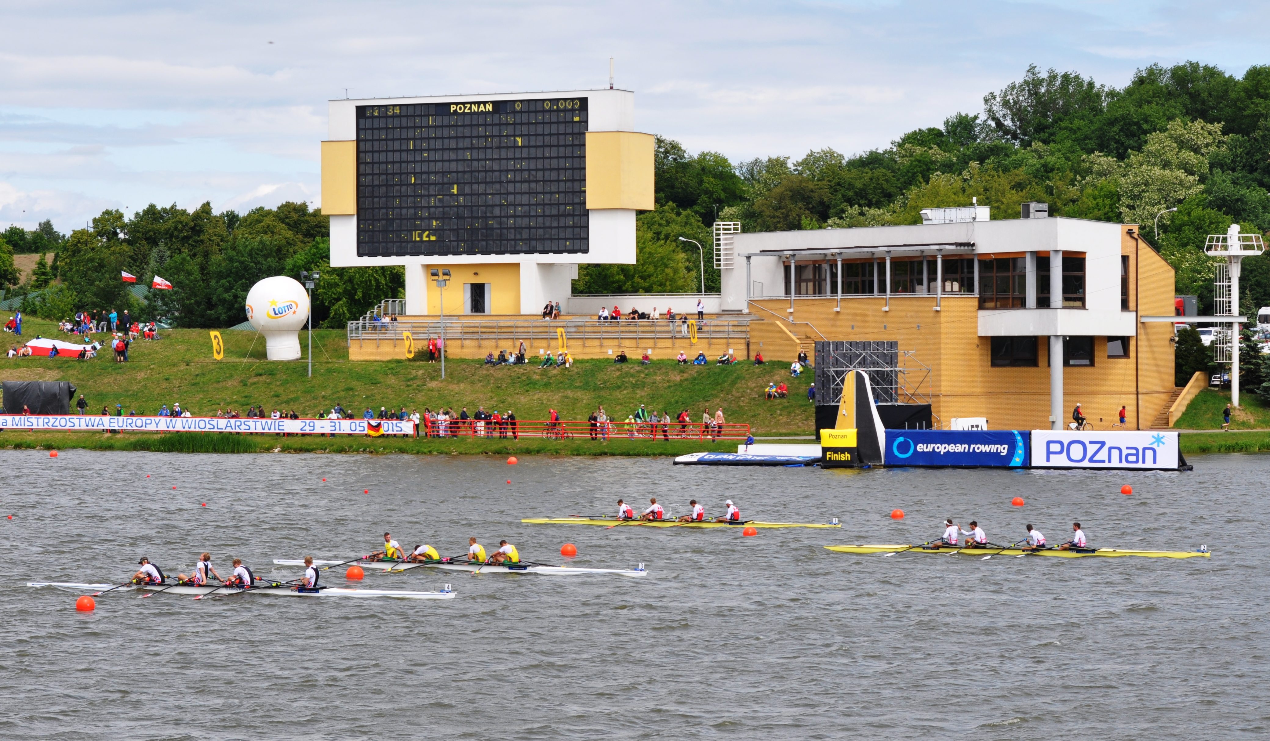 2015 European rowing championships, in Poznan